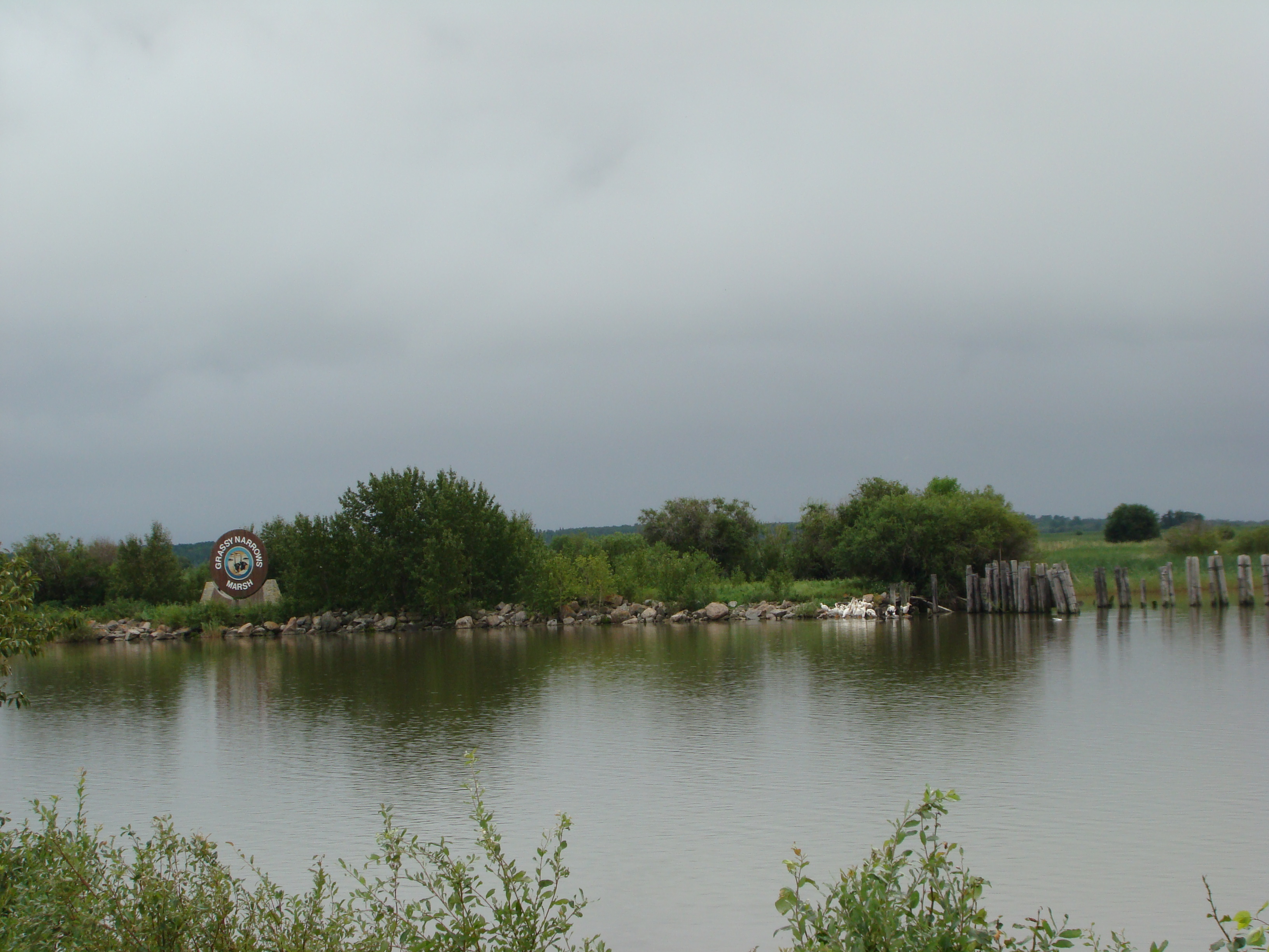 Hecla Island and Provincial Park in Lake Winnipeg Manitoba